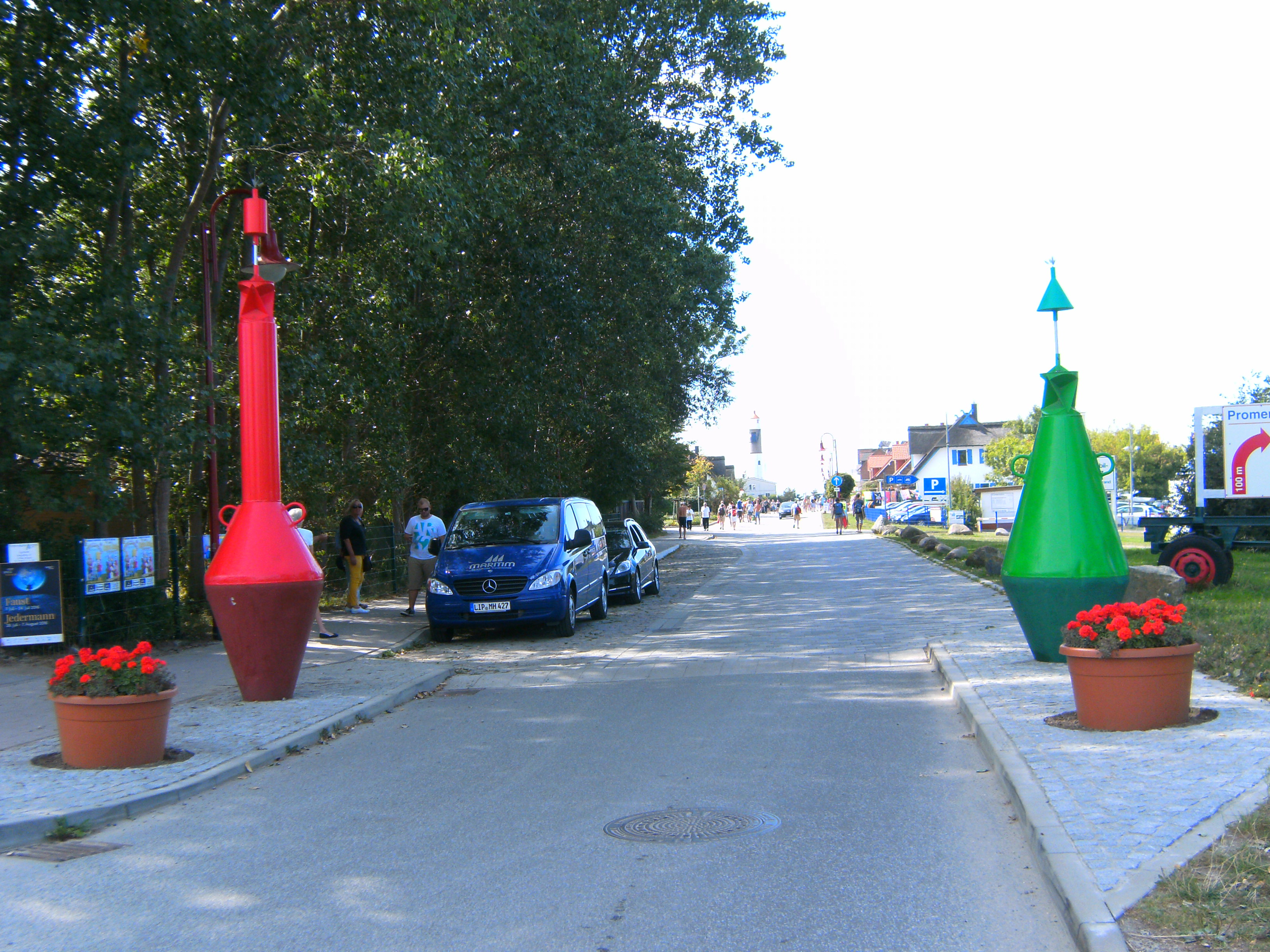 Insel Poel (isle), Germany: Buoys at the entrance of Timmendorf.